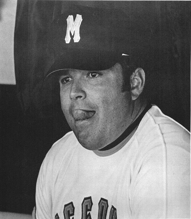 Photograph of Missouri baseball coach Gene McArtor